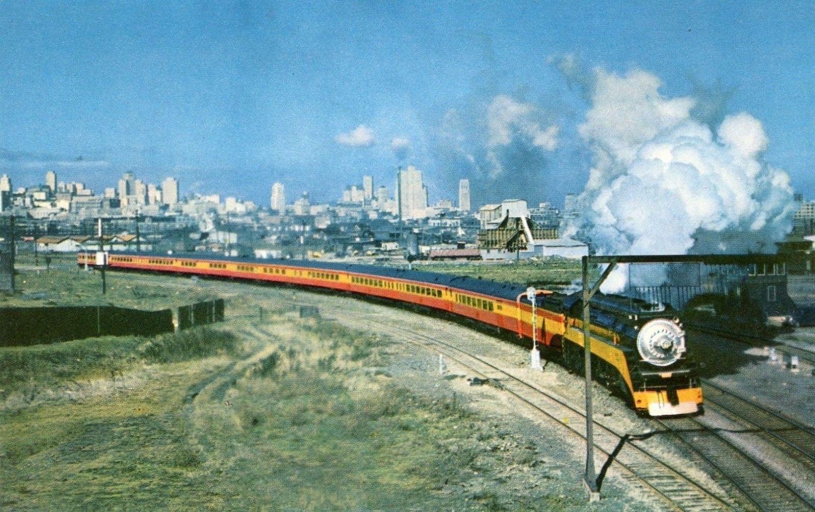 Postcard photo of the Noon Daylight leaving San Francisco.